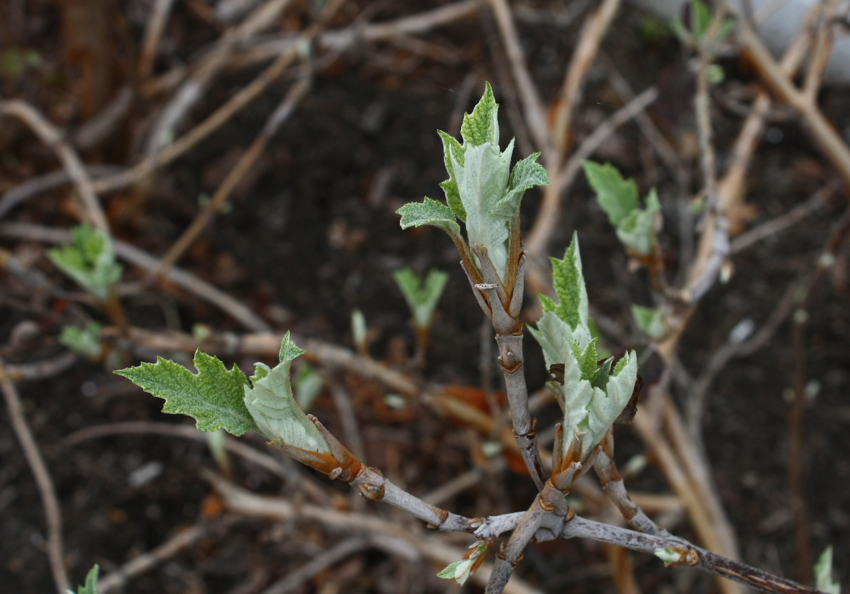 Hydrangea quercifolia - Oak Leaf Hydrangea. Taken at Krohn conservatory in Cincinnati, OH.